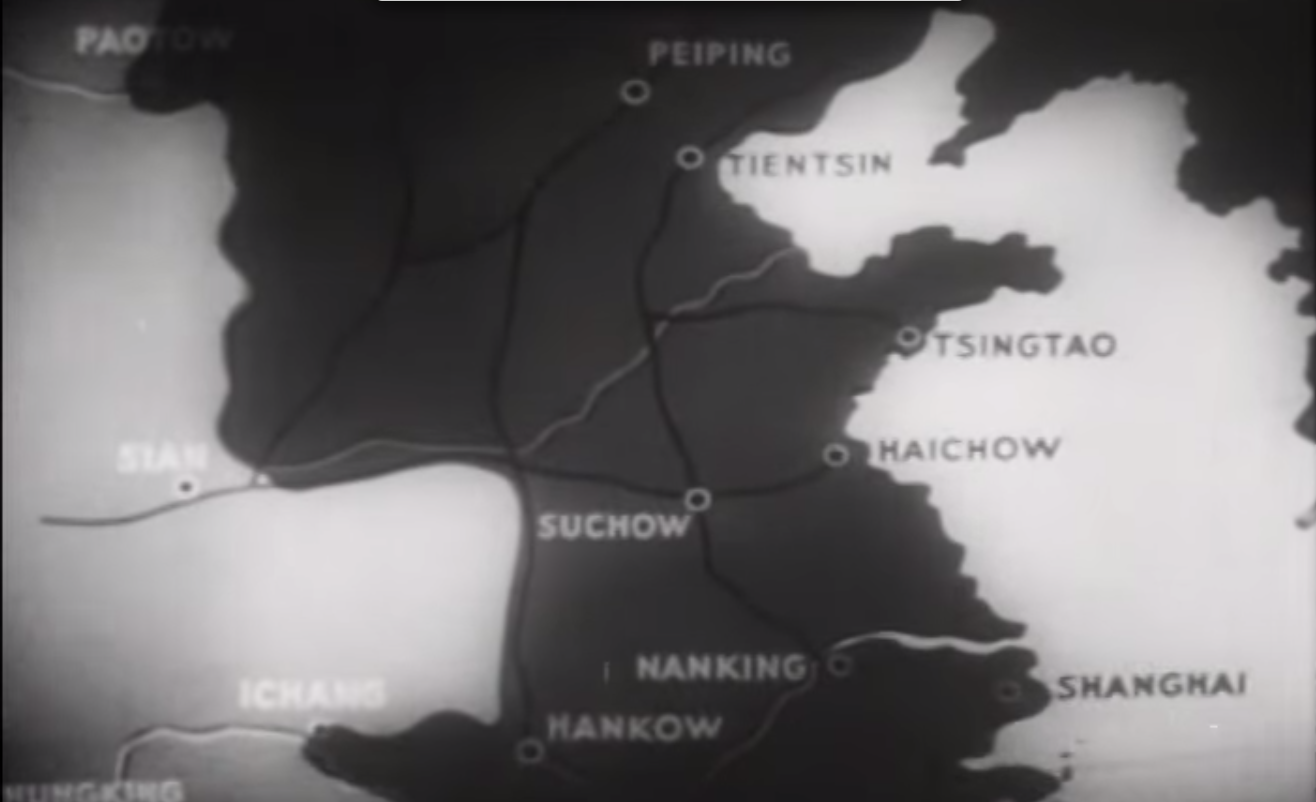 A map of claimed Japanese zones of control during the Second Sino-Japanese War (the Chinese theater of World War II). Guide to period names Paotow = Baotou Peiping = Beijing Tientsin = Tianjin Sian = Xi'an Suchow = Xuzhou Haichow = Haizhou = Lianyugang Tsingtao = Qingdao Chungking = Chongqing Ichang = Yichang Hankow = Hankou = Wuhan Nanking = Nanjing Shanghai